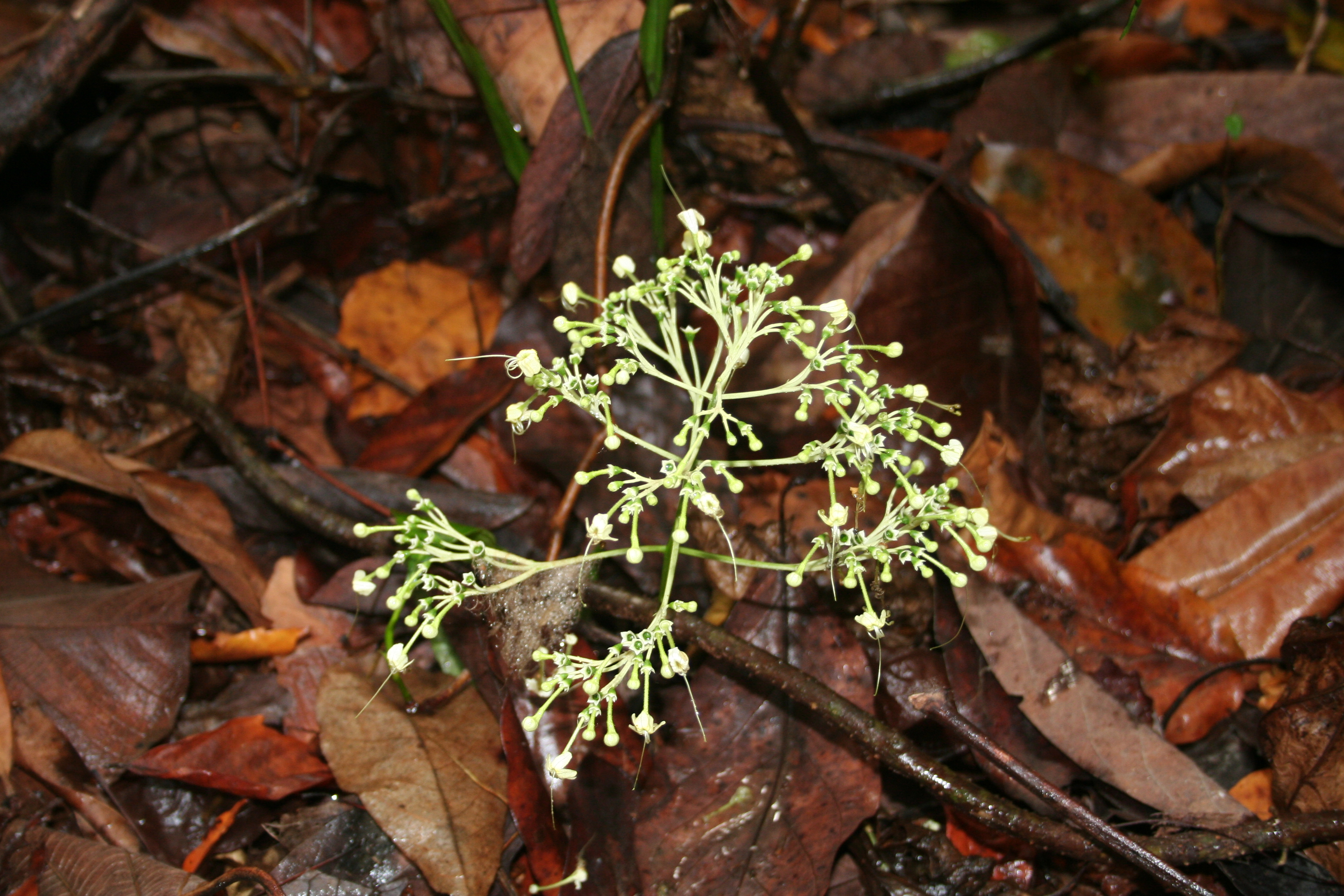 inflorescence of Clerodendrum bipindense, Bota Hill, Limbe Botanical Garden, Cameroon